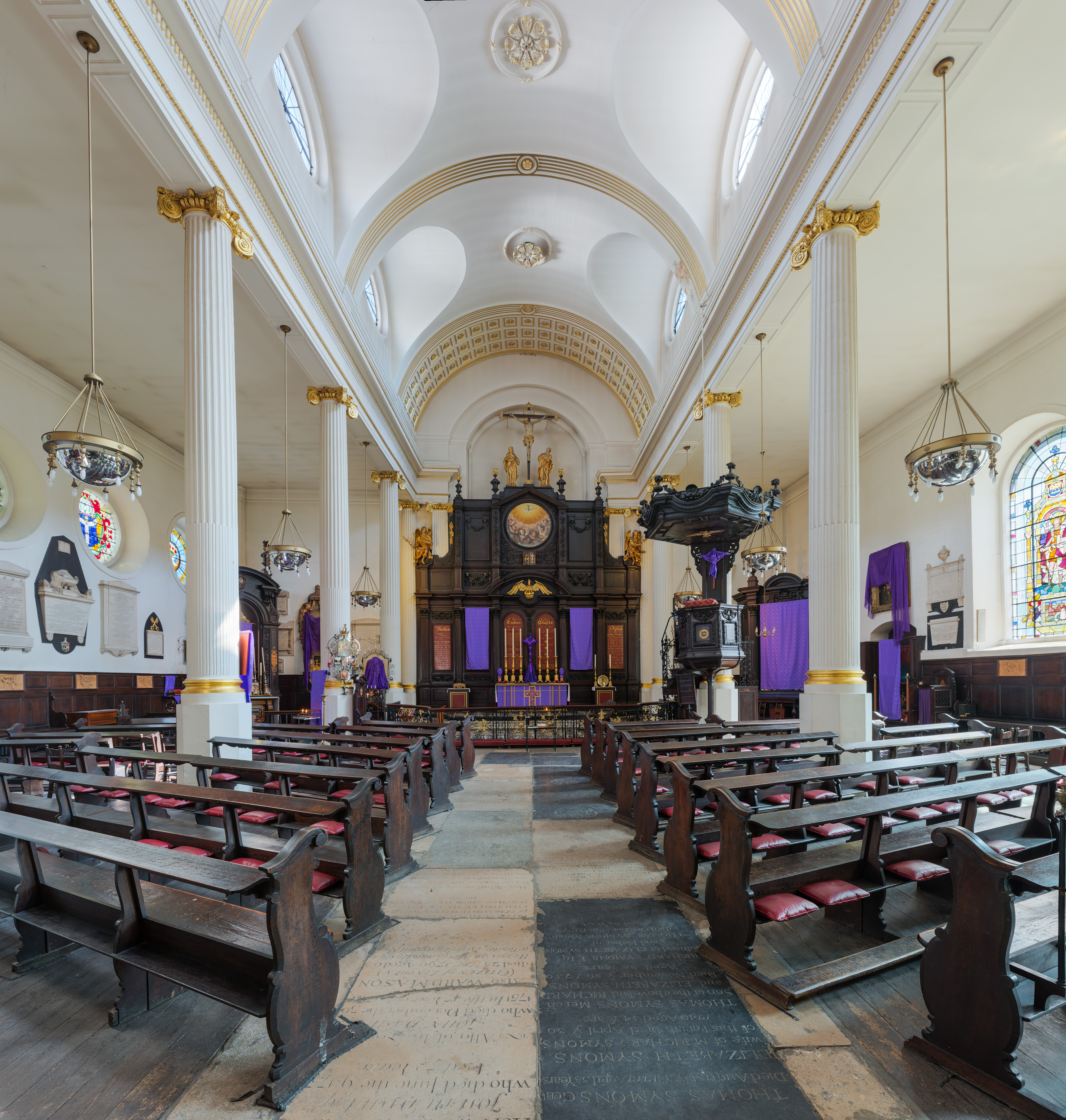 The interior of St Magnus-the-Martyr Church, facing the altar and reredos.